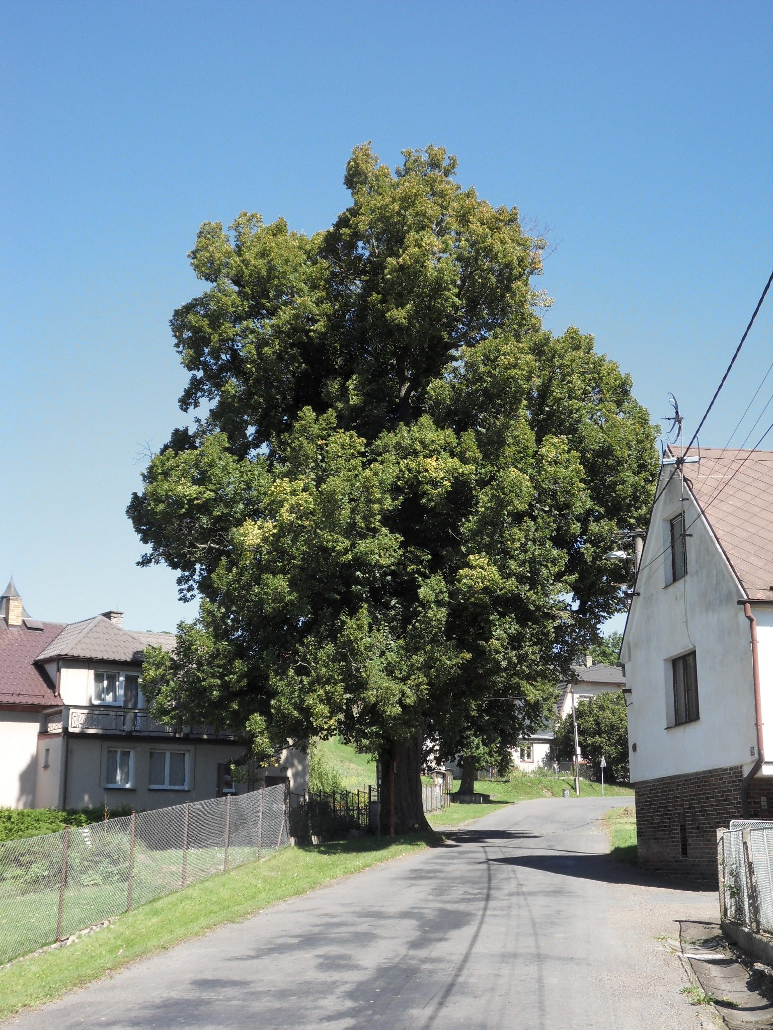 Small-leaved Lime (Tilia cordata) in Žďár by Ždírec, District Plzeň-jih, Czech Republic